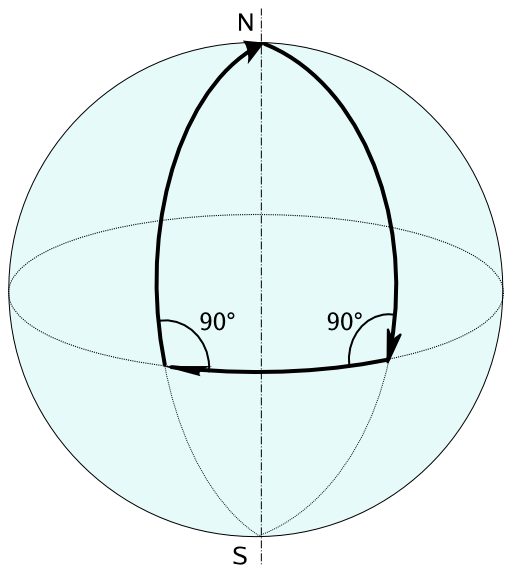 Curvatura intrinseca della sfera: un percorso che parte del polo Nord, scende lungo un meridiano, ruota di 90° lungo un parallelo e risale lungo un meridiano, ritorna al punto di partenza. Intrinsic curvature of the sphere: a path which starts from the North Pole, goes along a meridian, turns 90° along a parallel, then another 90° along a meridian, returns to the starting point. File:Sphere_closed_path.svg is a vector version of this file. It should be used in place of this raster image when not inferior. File:Sphere closed path.png File:Sphere_closed_path.svg For more information about vector graphics, read about Commons transition to SVG. There is also information about MediaWiki's support of SVG images.